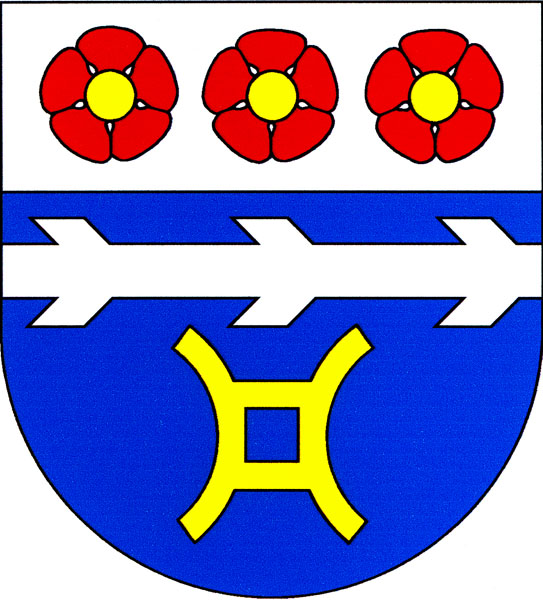 Coat of amrs of Třebestovice , District Nymburk, Czech Republic